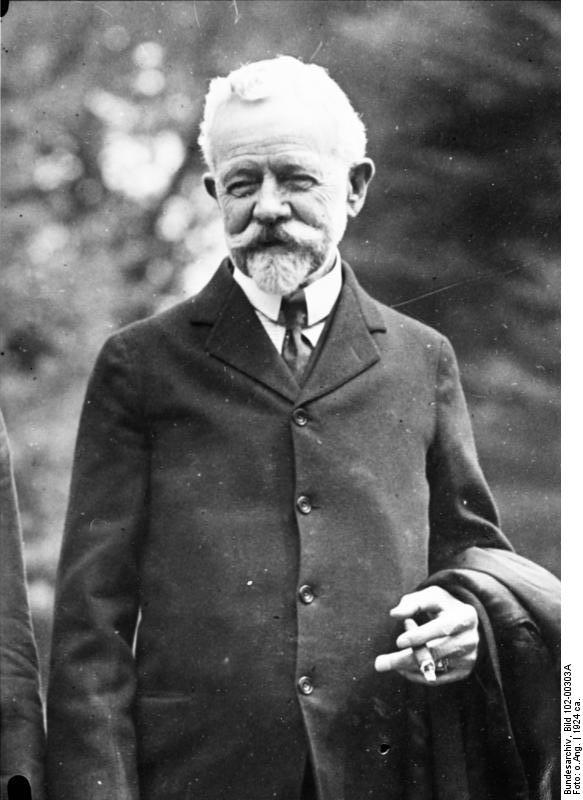 Senator Lodge, Henry Cabot